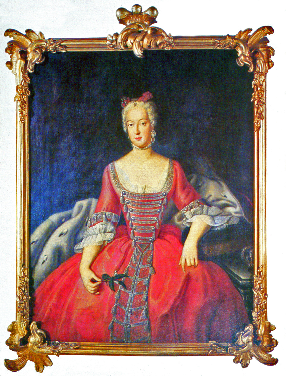 Friederike Sophie Wilhelmine Princess of Prussia (Antoine Pesne school)